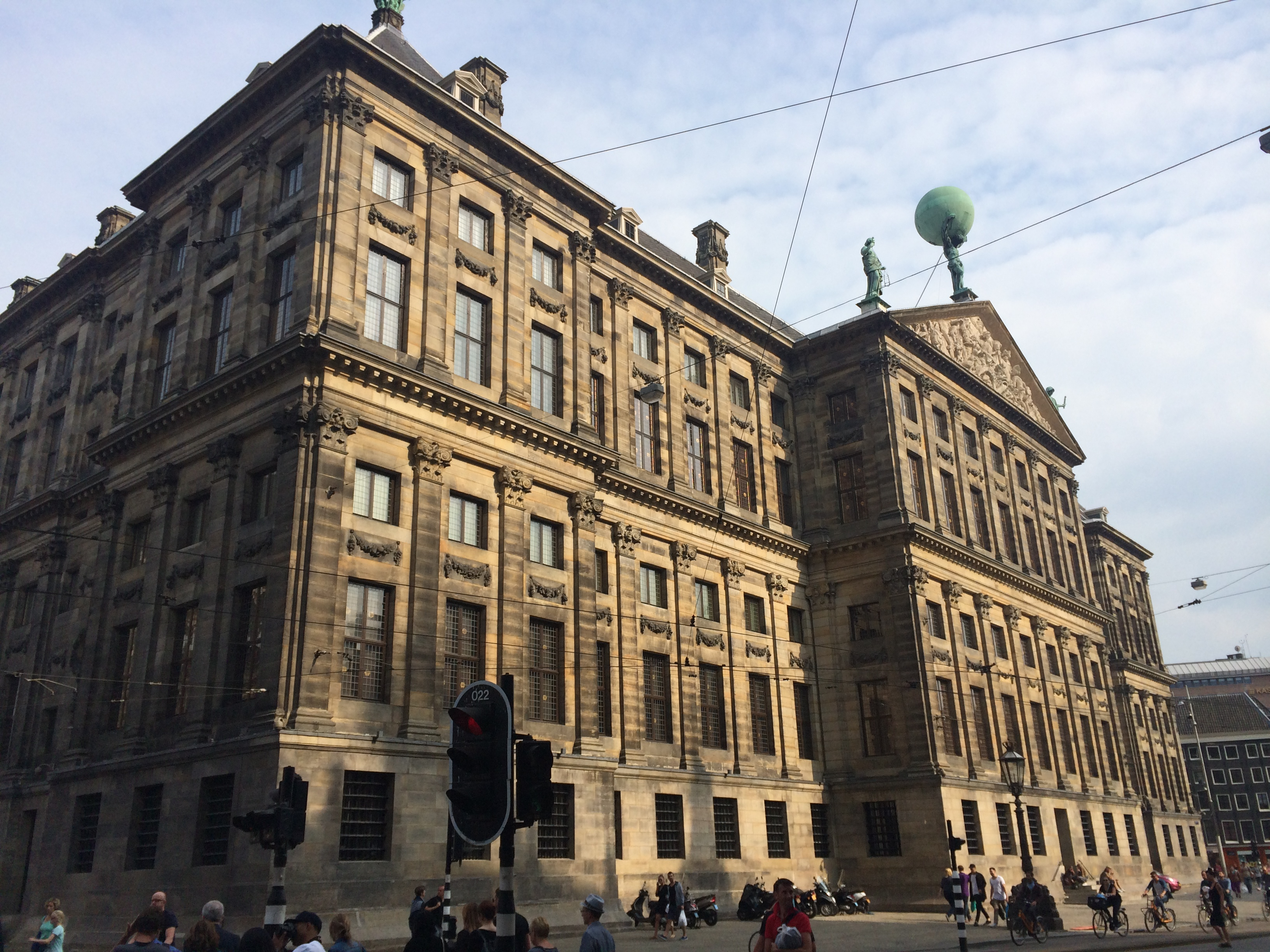 The Royal Palace of Amsterdam, Netherlands